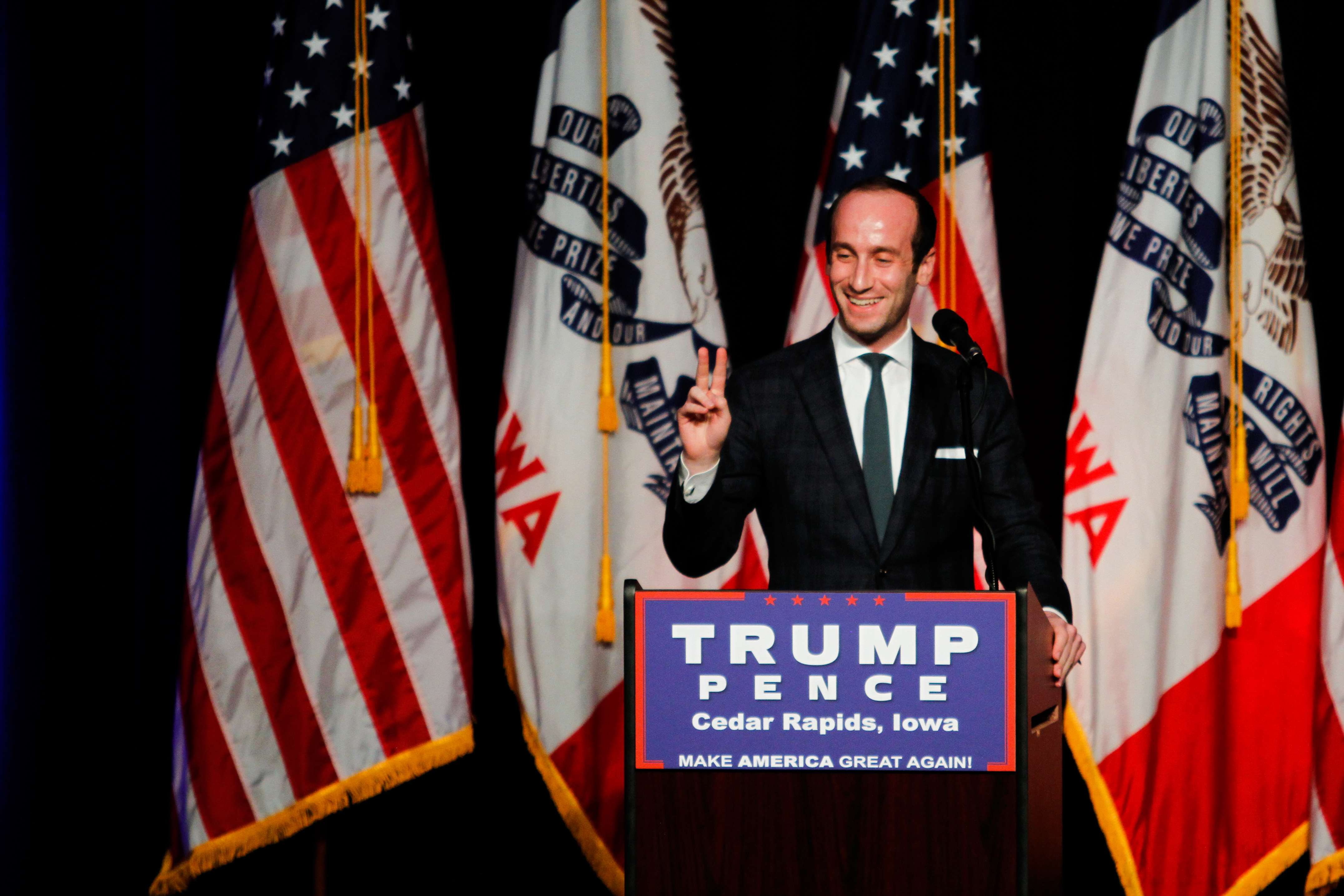 Senior Policy Advisor for the Trump Campaign Stephen Miller throws up a peace sign while saying hello to the crowd, before a Donald Trump event July 28 in Cedar Rapids. Miller criticized Democratic presidential nominee Hillary Clinton over her new slogan “stronger together,” believing that that didn’t include working class Americans.